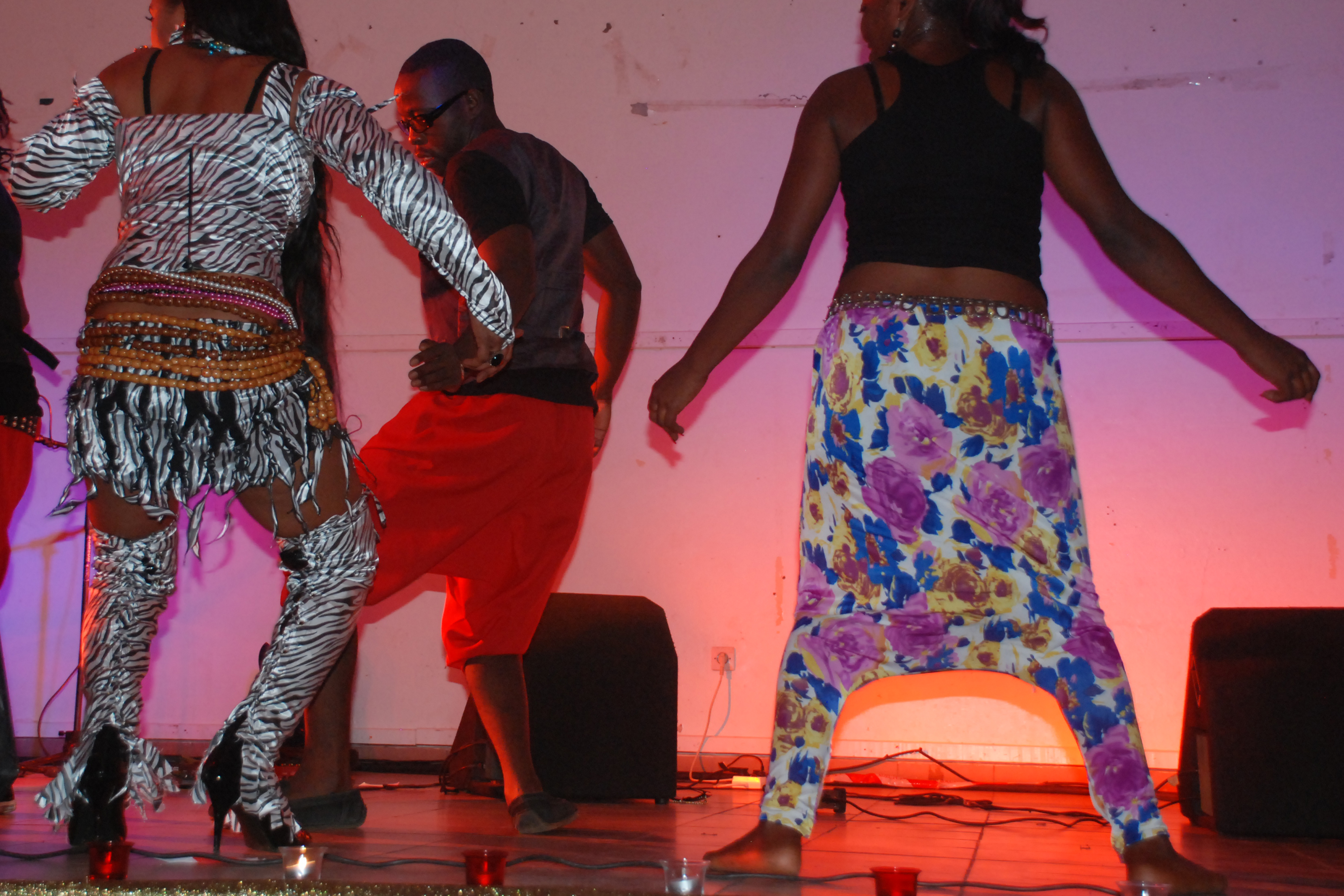 L'artiste camerounaise Lady Ponce en plein concert avec ses danseuses This is an image of "African people at work" from Cameroon